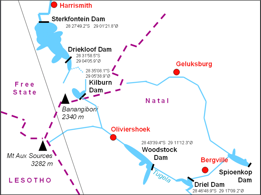 Drakensberg Pumped Storage Hydropower Project, South Africa. Principal Scetch